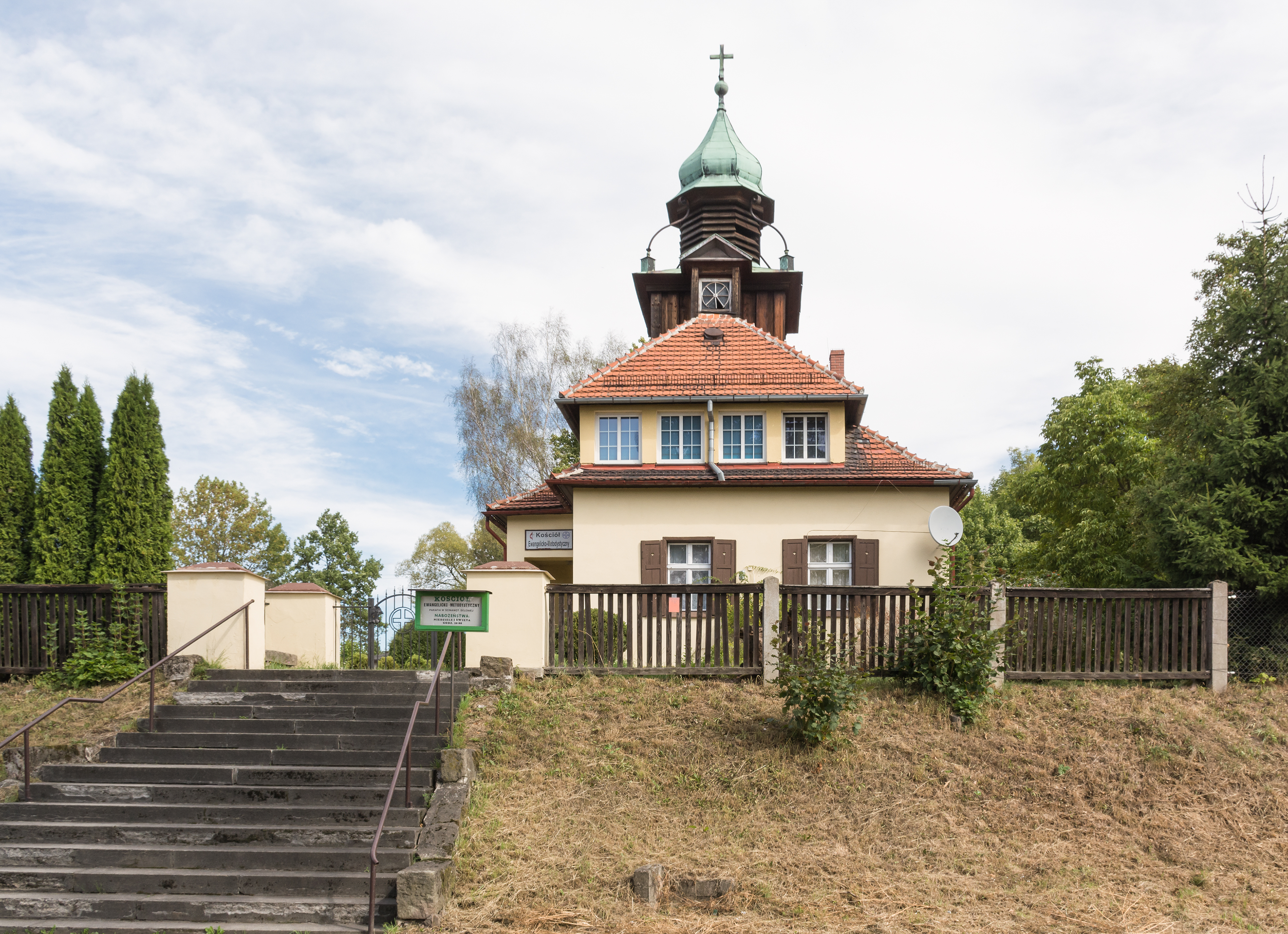 Methodist church in Ścinawka Średnia